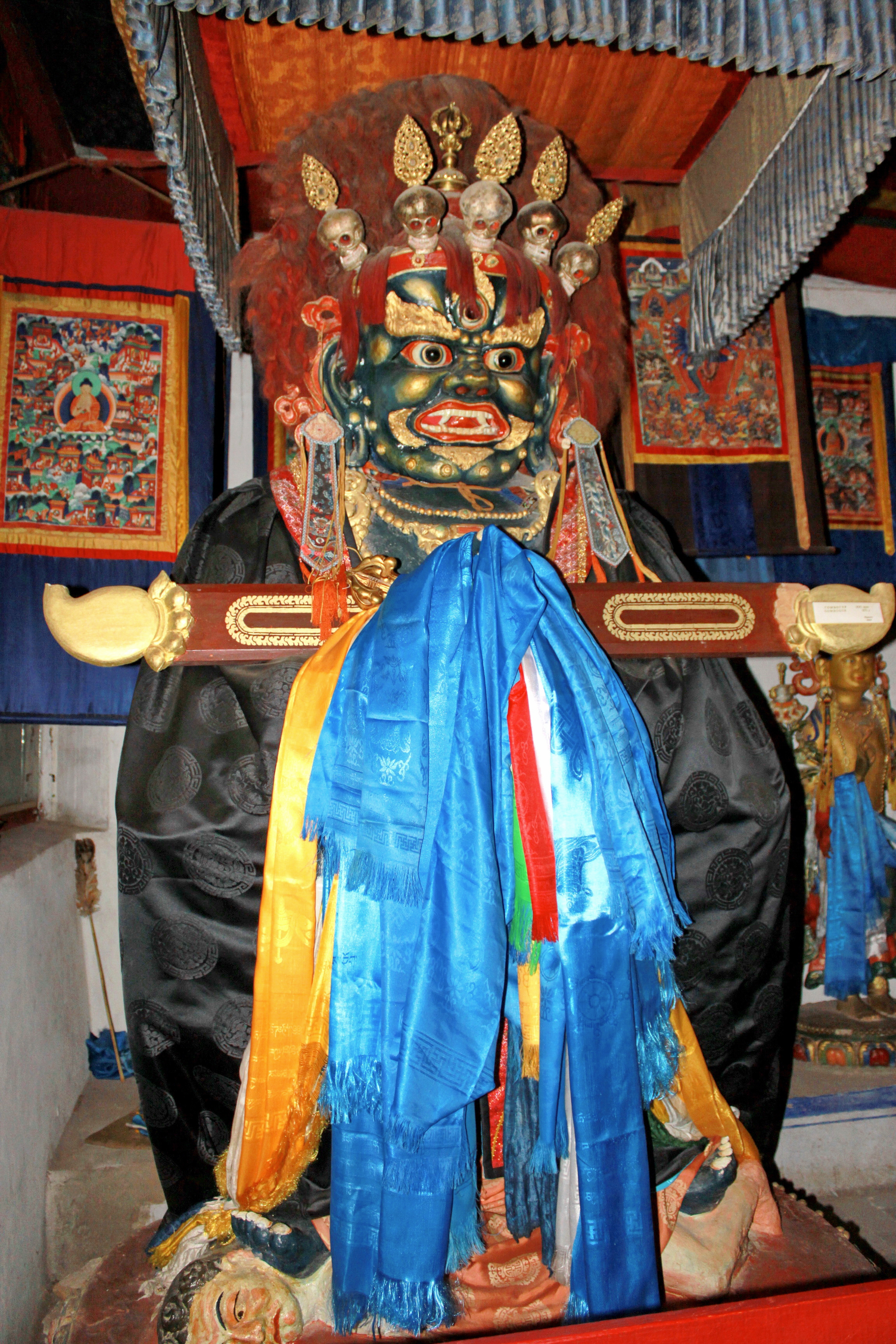 Sita Mahakala (Gonggor) - Dharmapala (protecting deity). Main Temple in the Erdene Zuu Monastery. Kharkhorin, Övörkhangai Province, Mongolia.